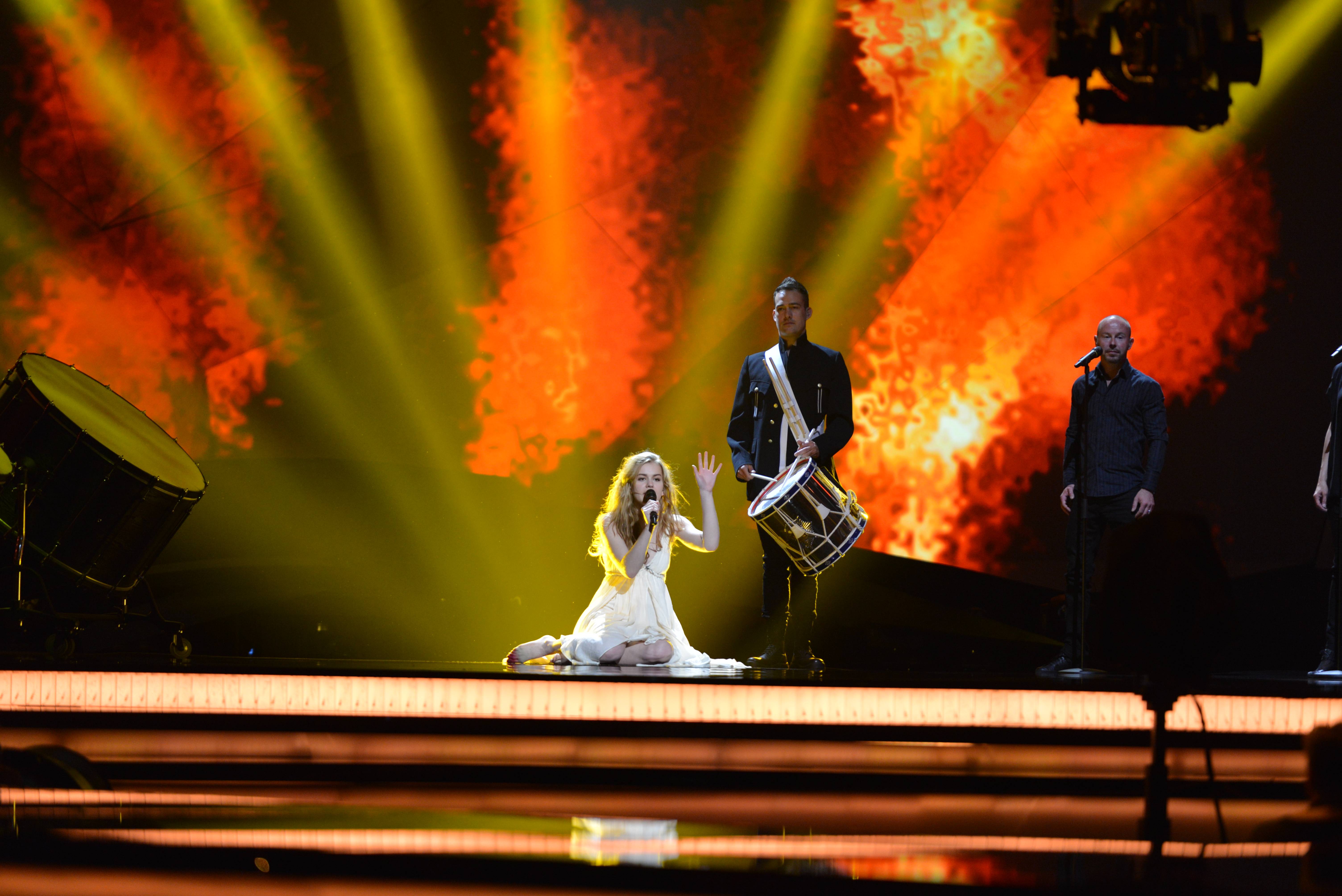 Emmelie de Forest representing Denmark with the song "Only Teardrops" during the first dress rehearsal of the final of the Eurovision Song Contest 2013 in Malmö. (Help translate this text)